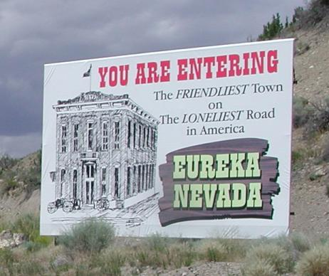 This sign can be seen on the side of Highway 50 when entering the town of Eureka, Nevada.